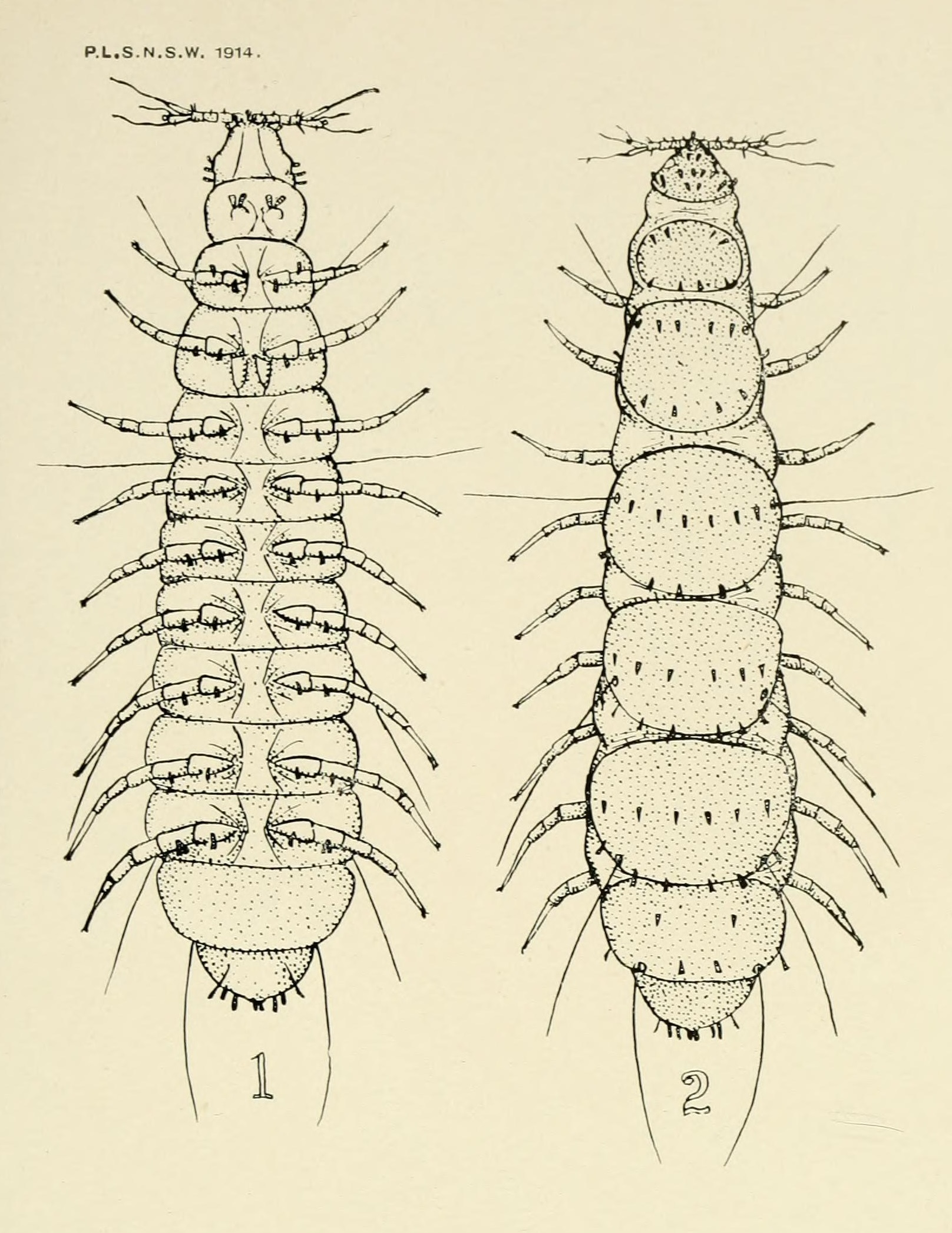 Pauropus amicus, a pauropodan from New South Wales, Australia. Male, ventral view. Male, dorsal view.